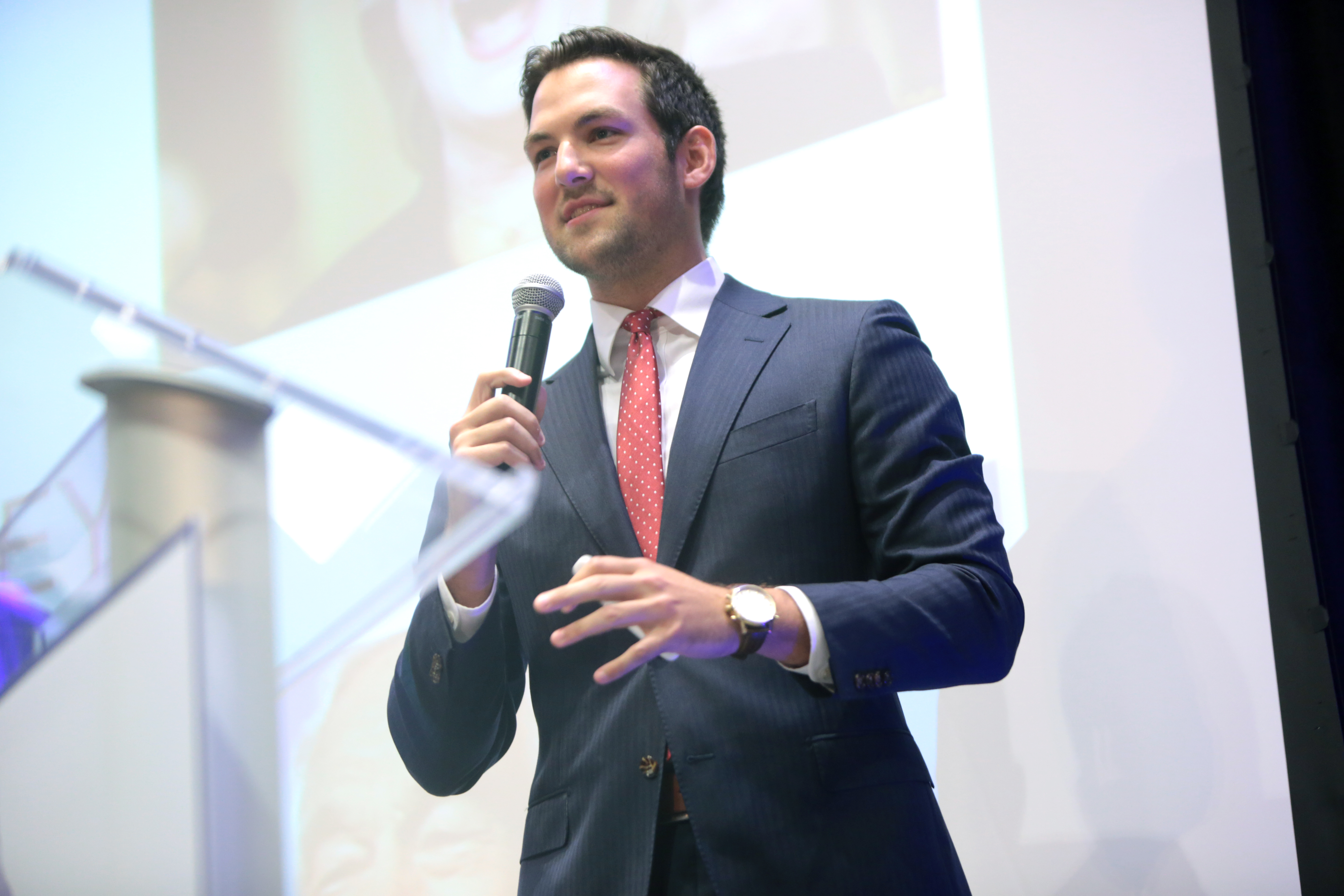 Cabot Phillips speaking at the 2016 Young Americans for Liberty National Convention at the Catholic University of America in Washington, D.C.